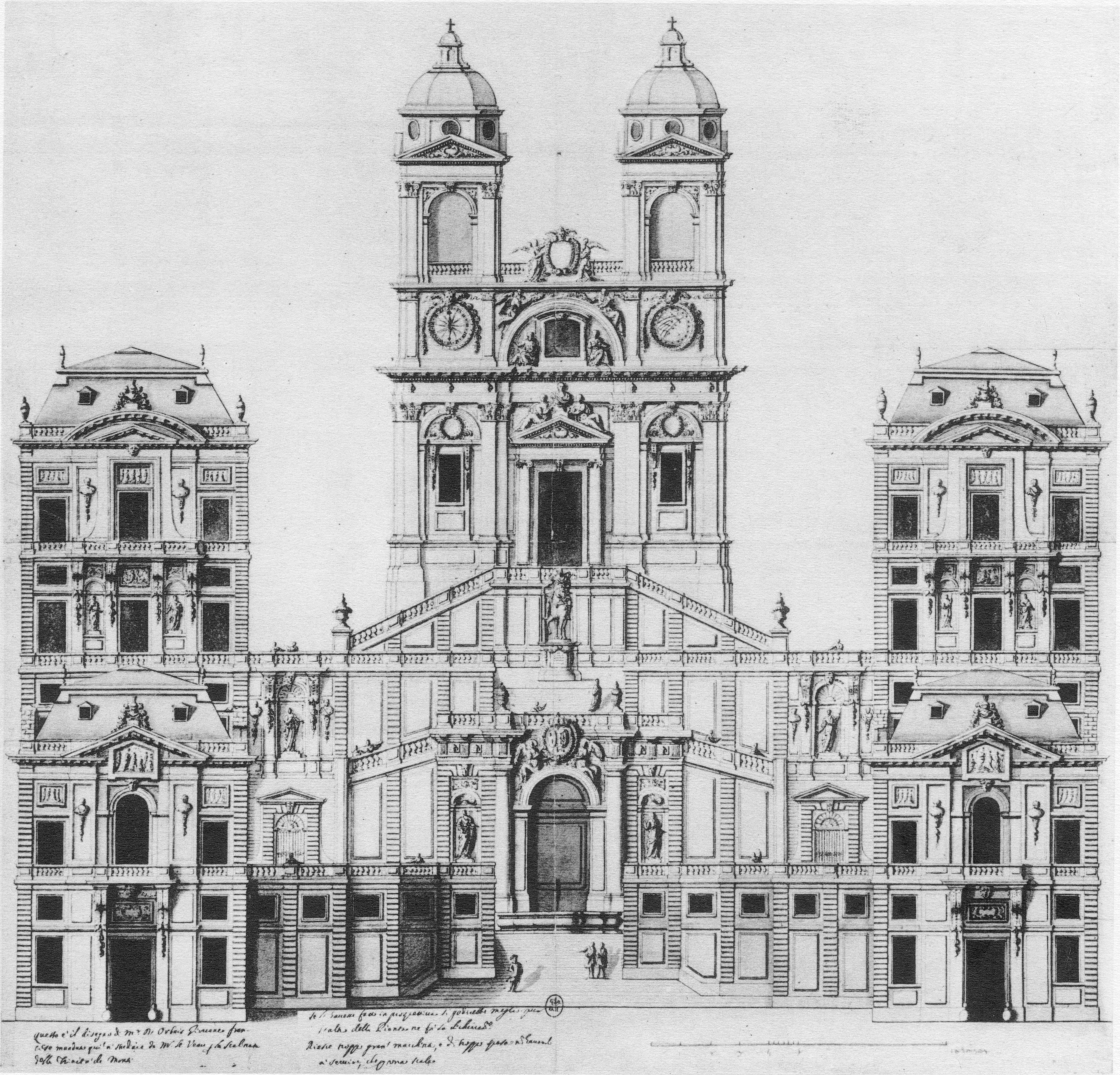 Project drawing for the Trinità dei Monti in Rome by French architect François d'Orbay (not executed)